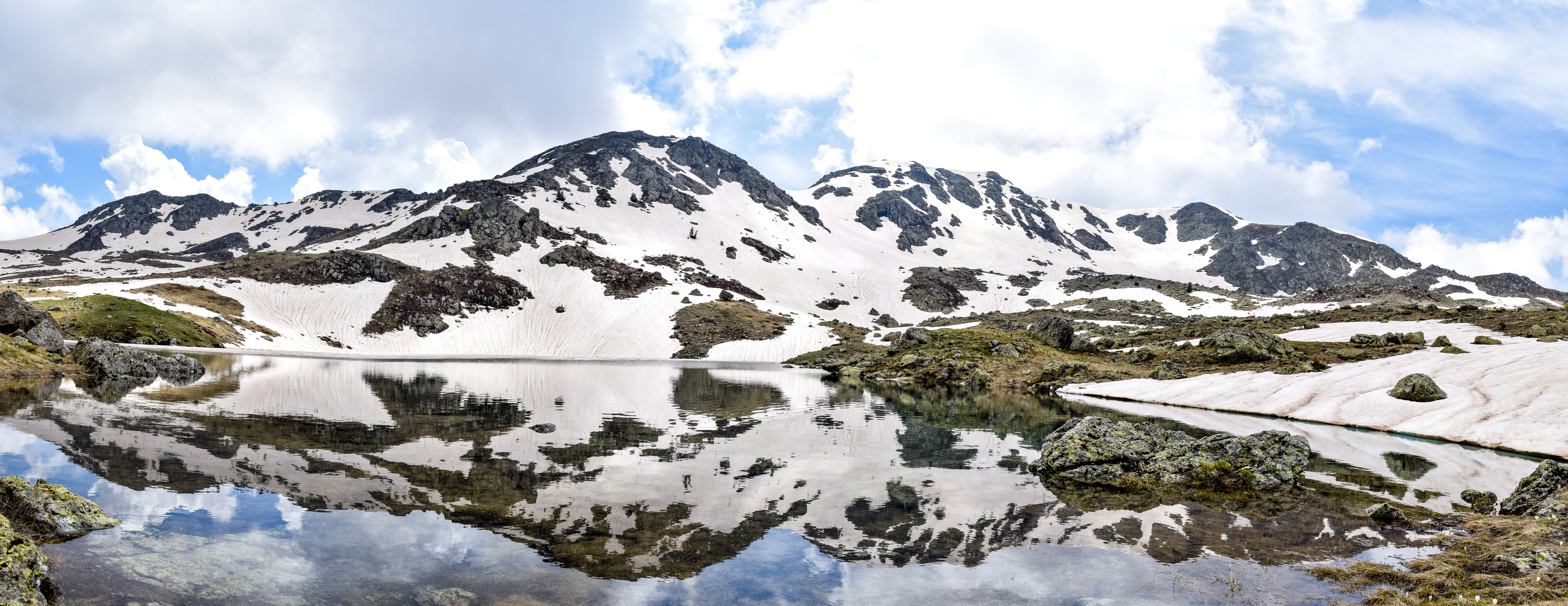 Vevcani Lake in Jablanica Mountain, during Spring (May 2018)